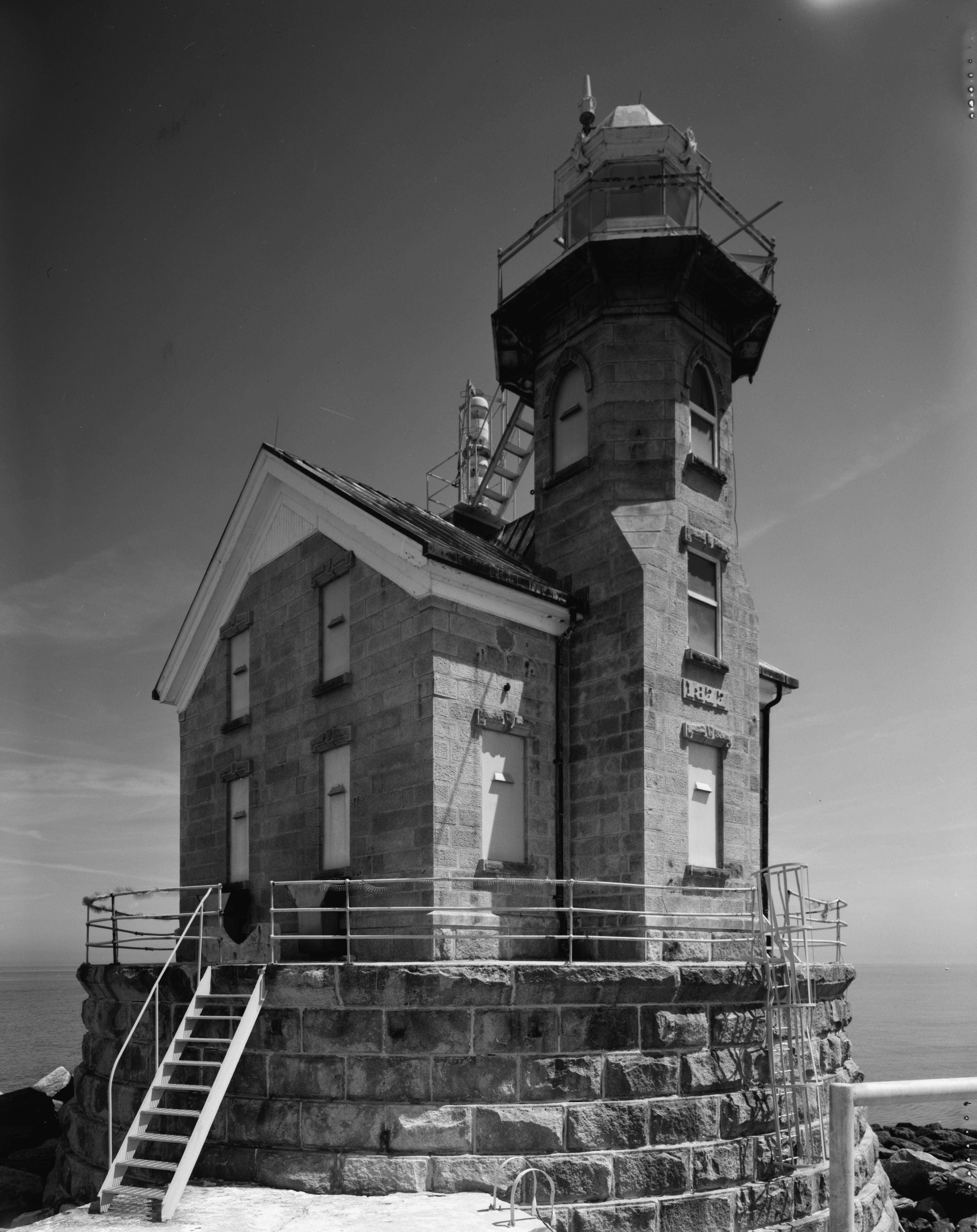 Stratford Shoal Lighthouse, Long Island Sound, Bridgeport vicinity (Fairfield County, Connecticut)